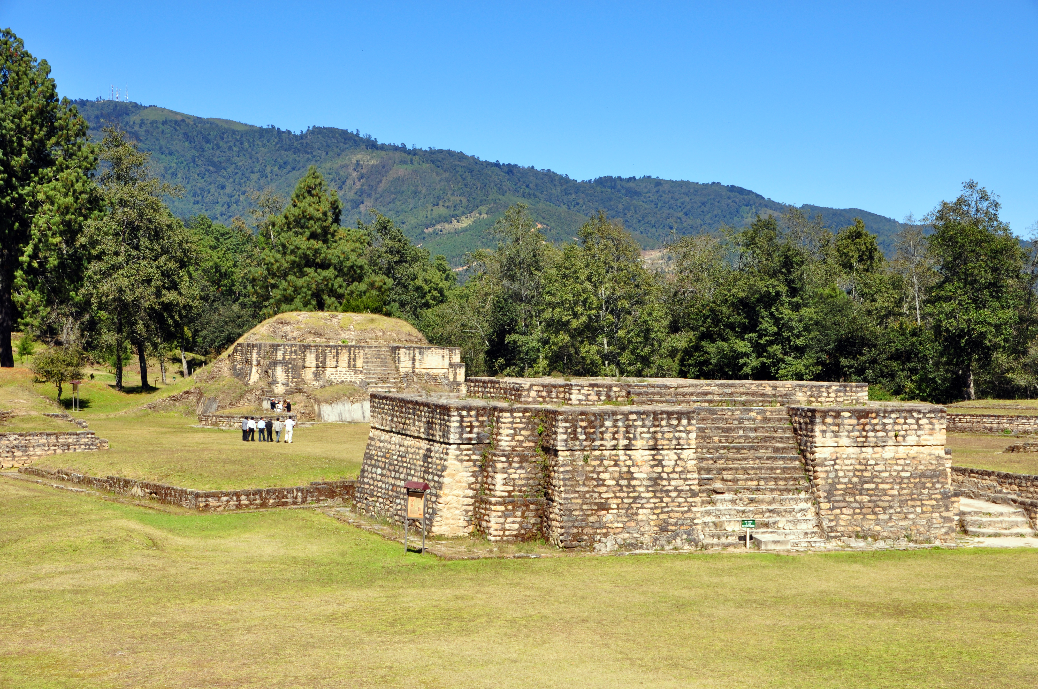 Iximche Guatemala Maya Ruins 2009